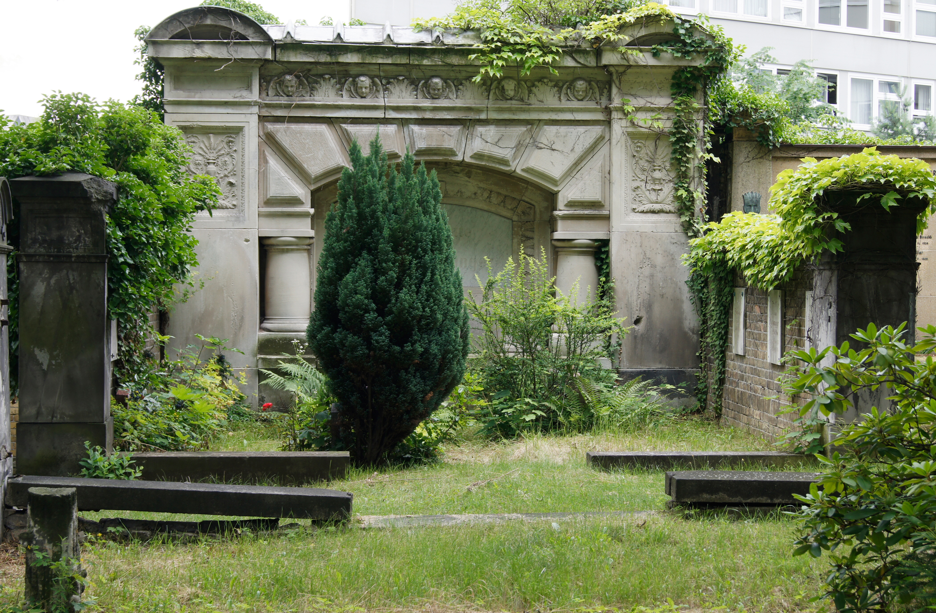 Beringer family tombs on the south wall of the cemetery at the Königin-Elisabeth-Straße 46-50 (Luisenfriedhof II), Berlin.